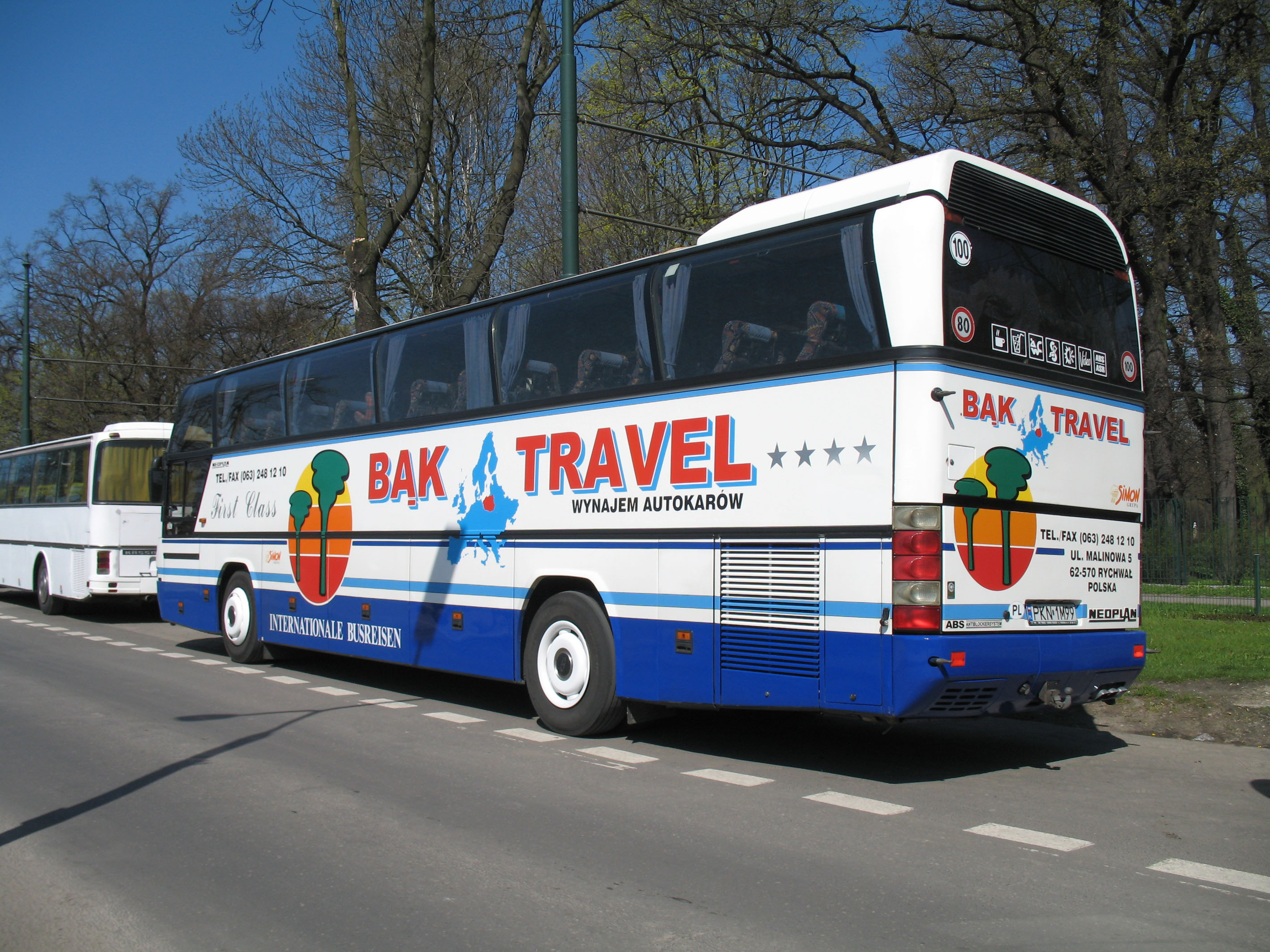 Neoplan N116 Cityliner coach in Kraków, Poland. Built 2002, Bąk from Rychwał operator.